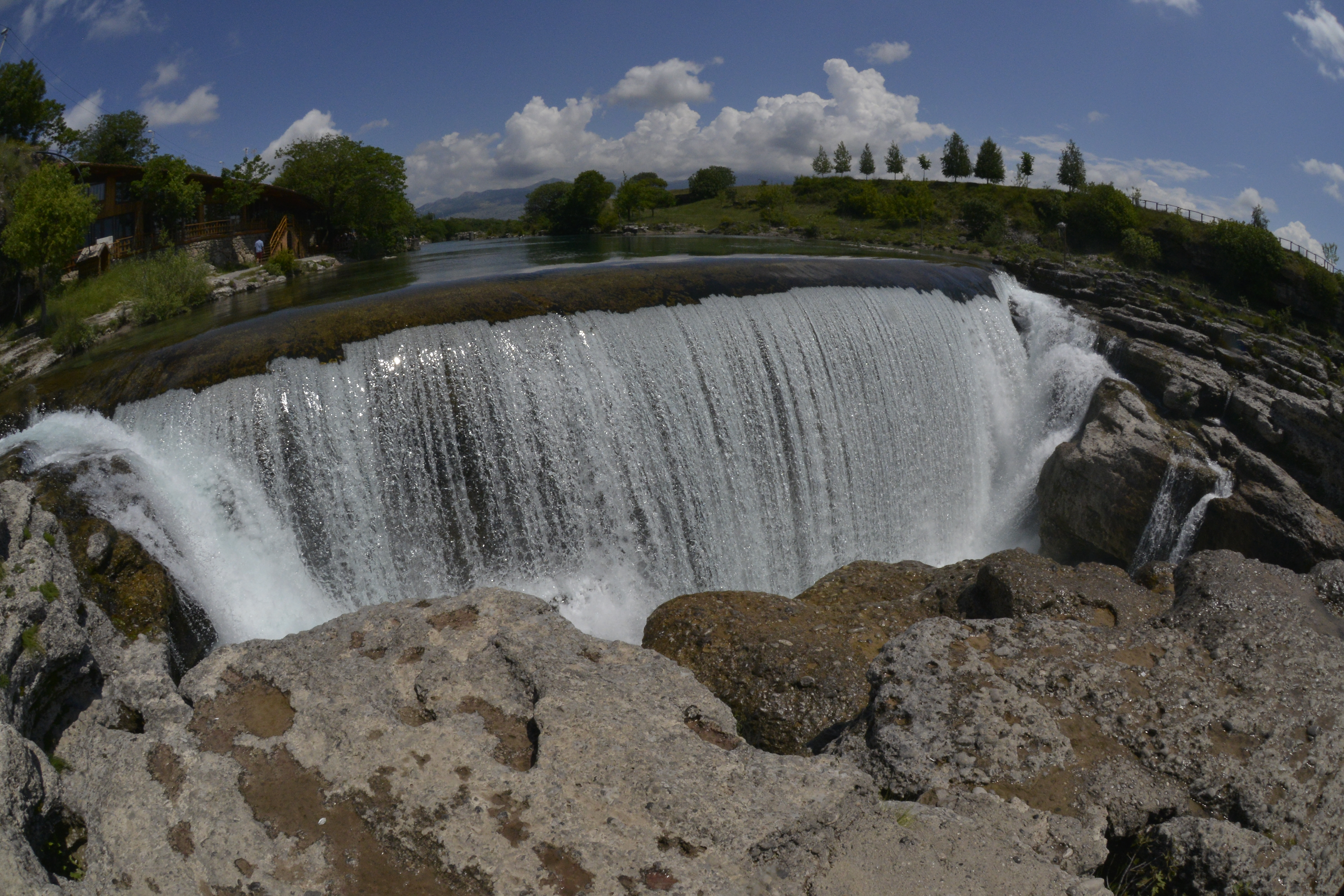 Waterfalls on Cijevna (Cem) river in Montenegro